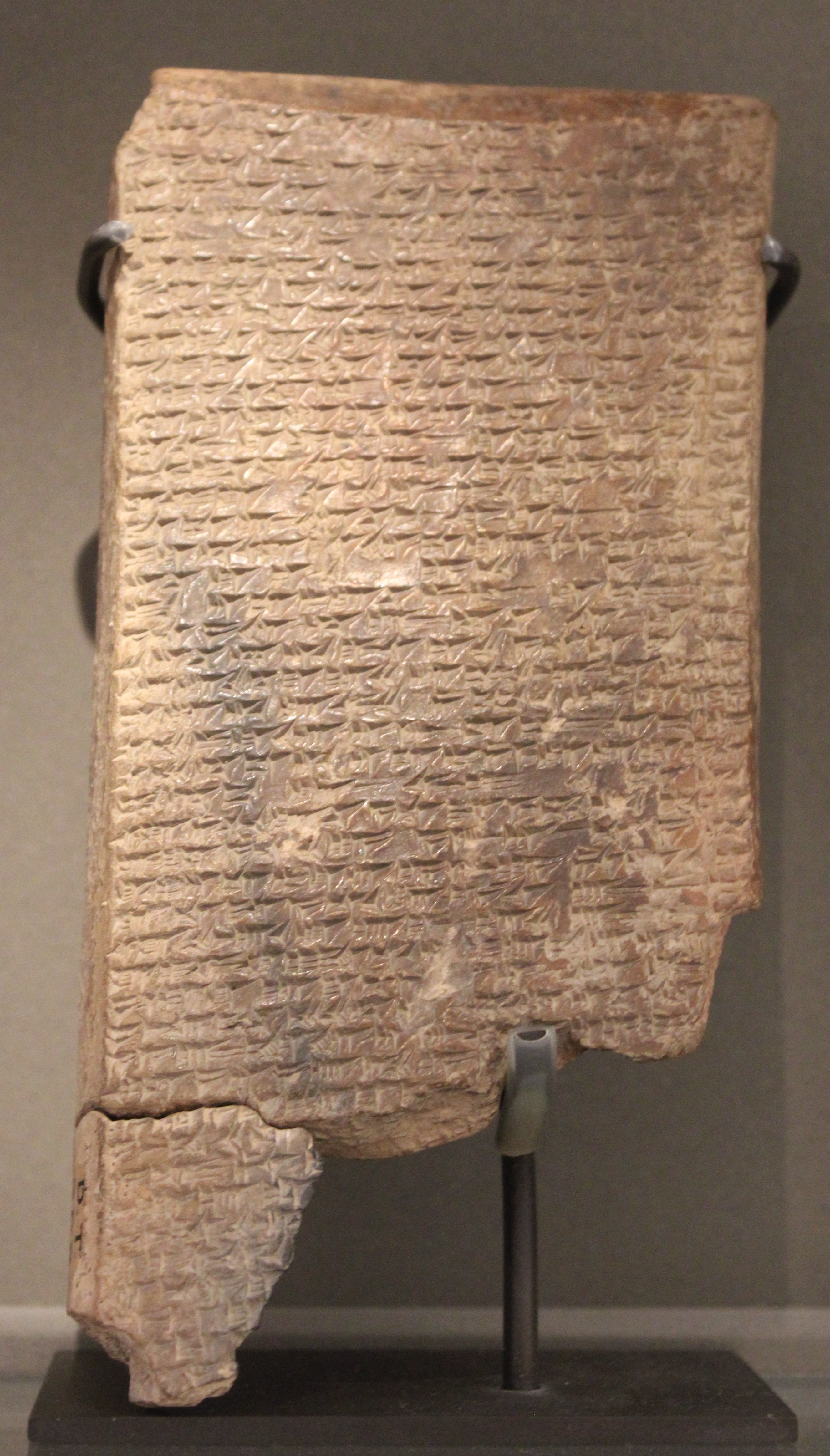 Tablet of the Babylonian wisdom text Ludlul bēl nēmeqi, "I praise the Lord of wisdom", often nicknamed "Monologue of the righteous sufferer". Version of the 7th century BC. AD, Nineveh, "Library of Ashurbanipal". Fragments K 2518 + DT 358, deposit from the British Museum at the Louvre Museum.